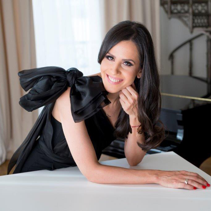 Tamara Vučić, First Lady of Serbia, wife of President Aleksandar Vučić. Serbian diplomat.